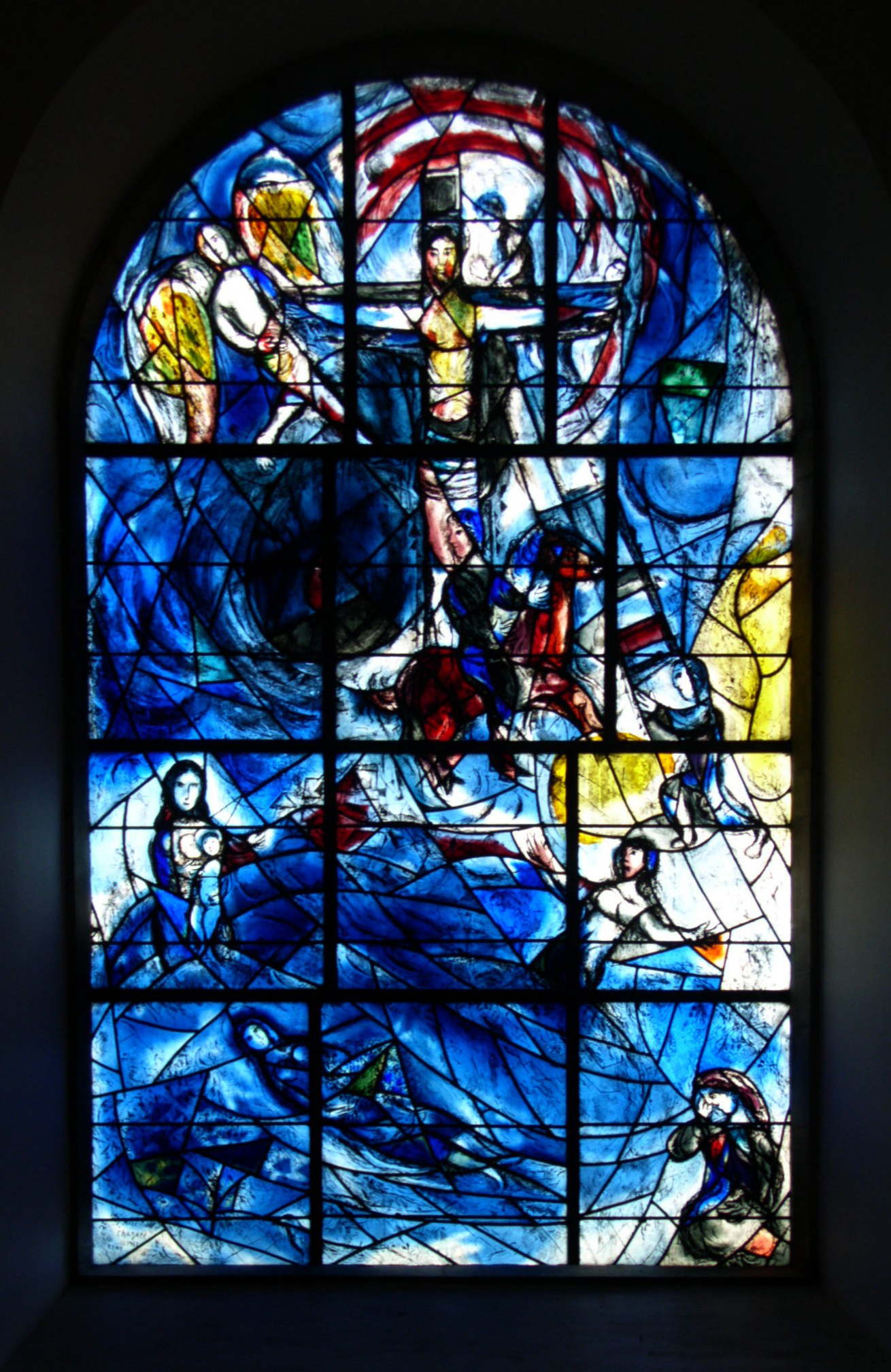 Chagall's Window at All Saints Church Tudeley, Kent. The window was designed by artist Marc Chagall.